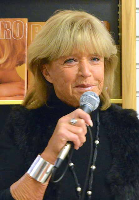 Lill-Babs signs the book "Barbro" at NK in Stockholm on December 5, 2013.